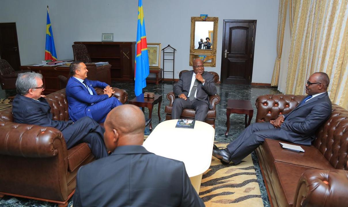 Félix Tshisekedi with Nicolas Kazadi and Luc-Gérard Nyafé at the Cité de l'Union Africaine